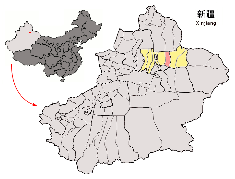 Location of Jimsar County (pink) and Changji Prefecture (yellow) within Xinjiang autonomous region of China Map drawn in september 2007 using various sources, mainly : Xinjiang Uygur autonomous region administrative regions GIS data: 1:1M, County level, 1990 Xinjiang Counties map from